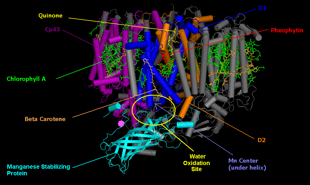 PDB 2axt, using pymol